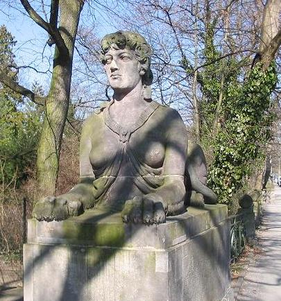 The Hertha lake ("Herthasee") in Berlin; Sphinx at the Bismarck bridge